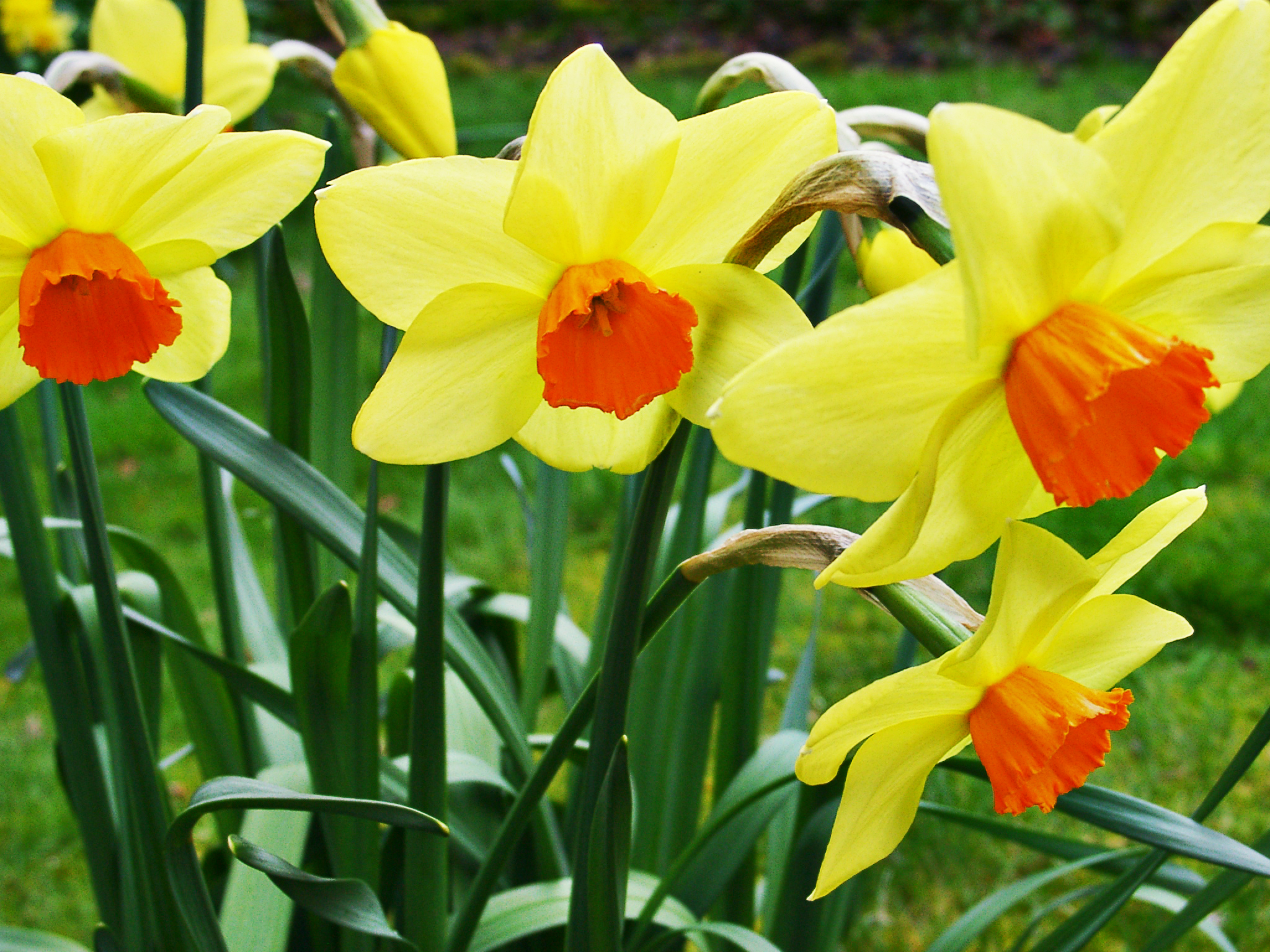 Symbolic Welsh flower, the daffodil